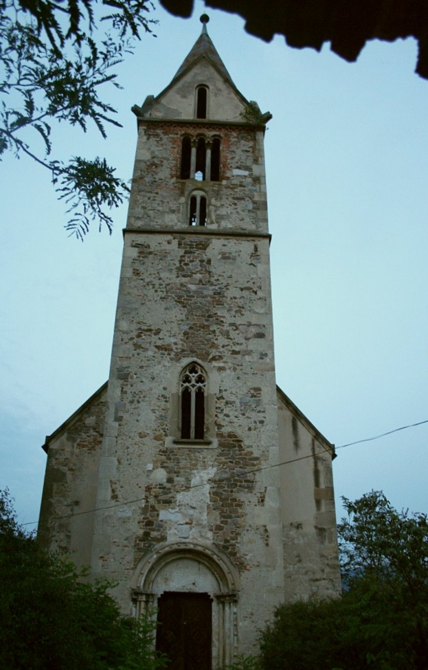 The Hungarian Reformed church from Santamaria-Orlea, Hunedoara